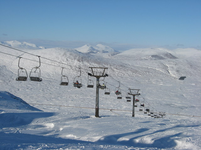 White Corries chairlift This shows the chairlift from the ski centre up to the first stage. The main road through Glencoe can just be seen down in the valley.